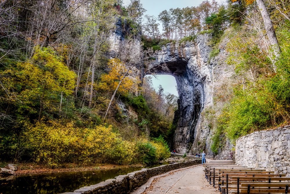 Uploaded by SA. Photos taken by Jean S. for VSP – use as needed, no attribution required. Learn more about Natural Bridge State Park here